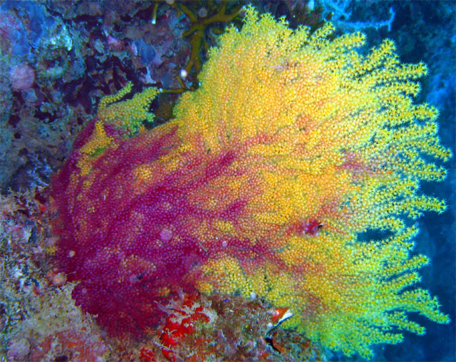 Spiny gorgonian (Anthogorgia sp.), Pulau Aur, West Malaysia